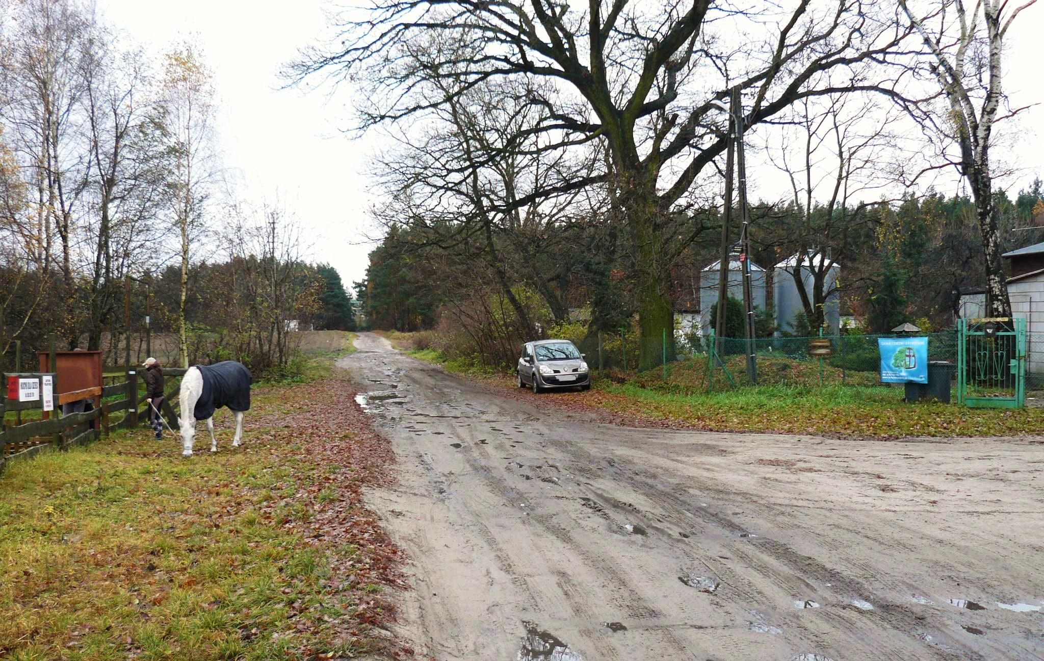 Huby Moraskie Street, Poznan.